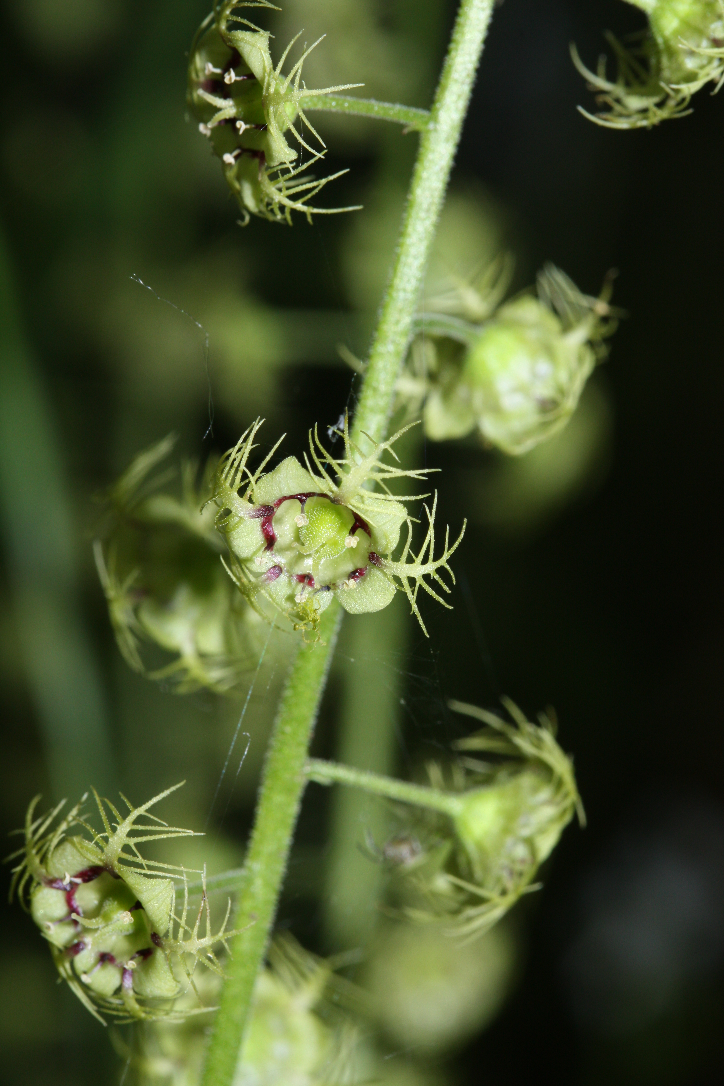 Slightstemmed Miterwort, Leafy Mitrewort, Star-shaped Mitrewort